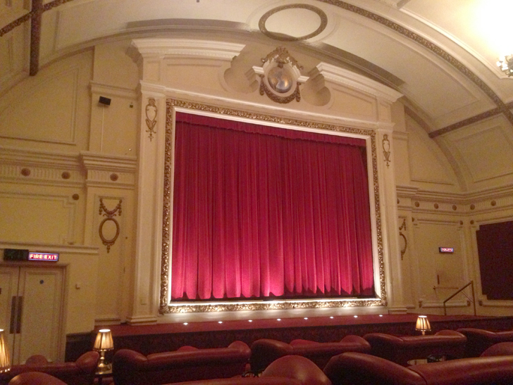 Electric Screen Notting Hill